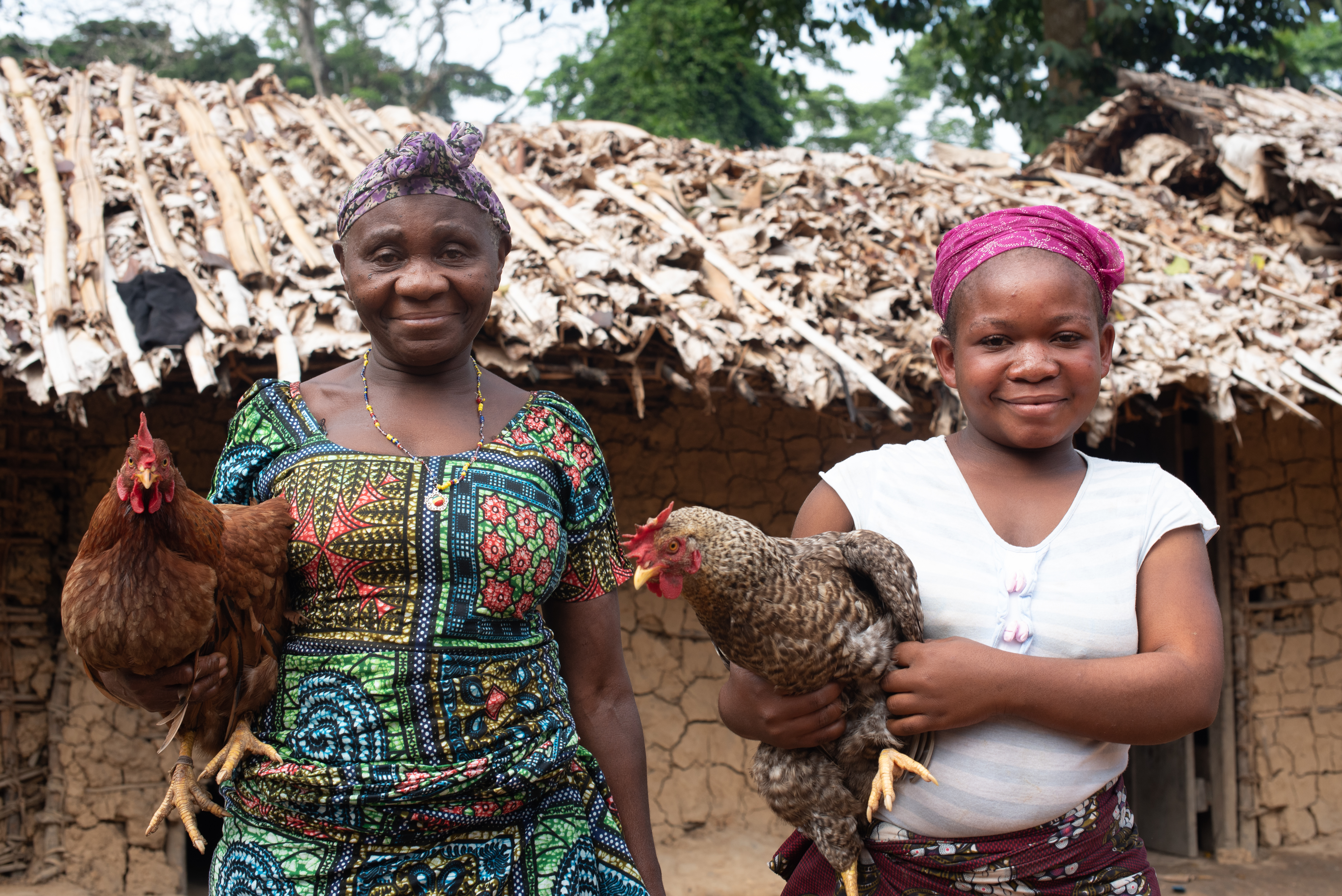 Tete and Elena, two women of the Mbuti People (Pygmy tribe) in Mabukulu village in DR Congo, showing the chickens they have received from the Trócaire project